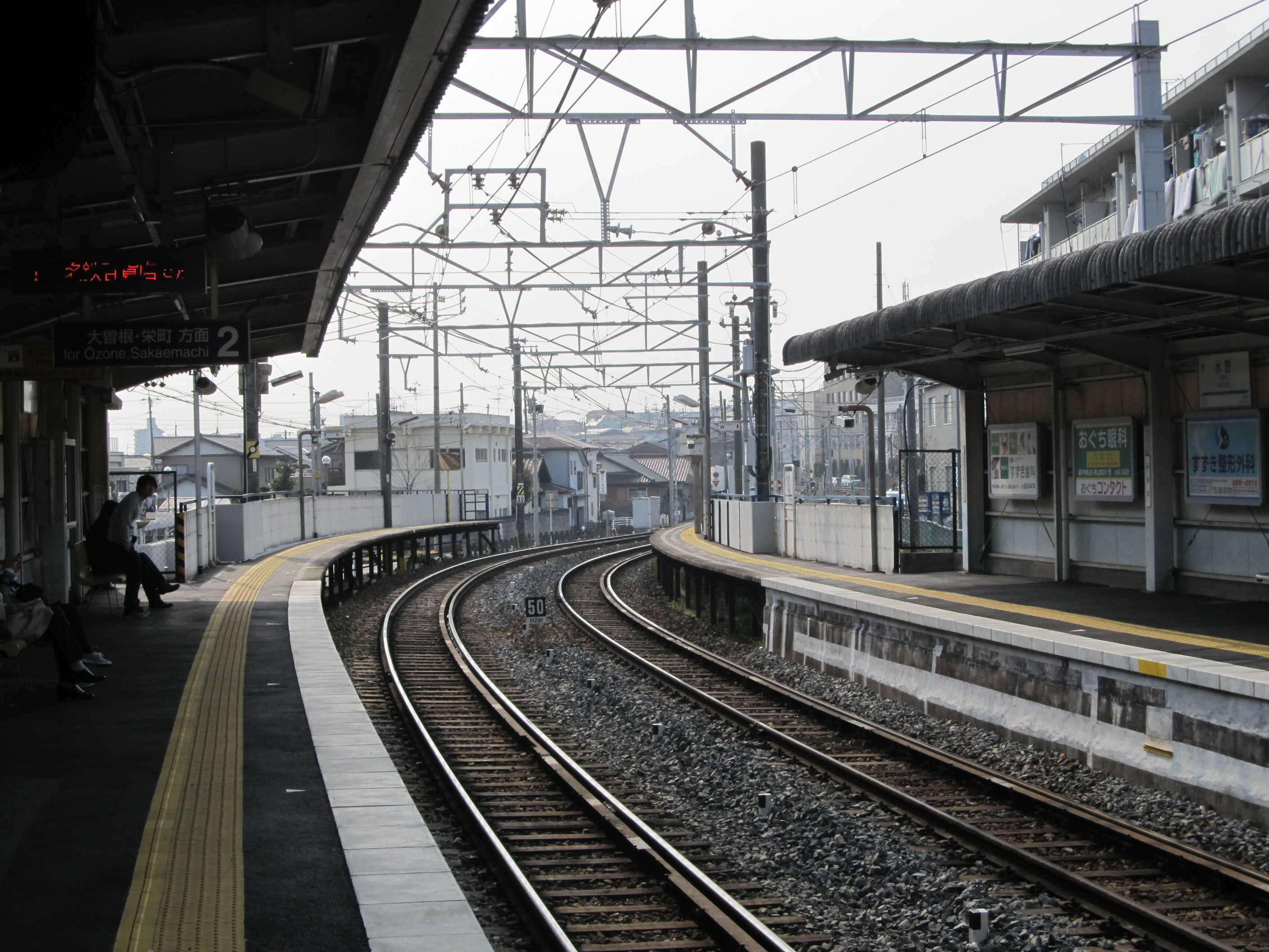 Nagoya Railroad Seto Line Mizuno Station Platform.